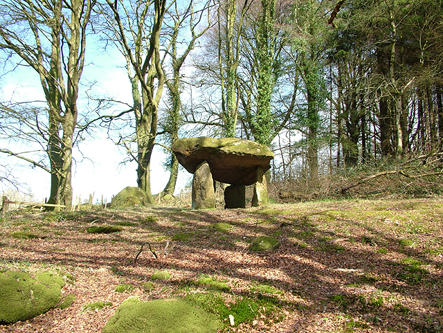 Burial Chamber Gwal y filiast evidently translates as "Lair of the Greyhound Bitch".